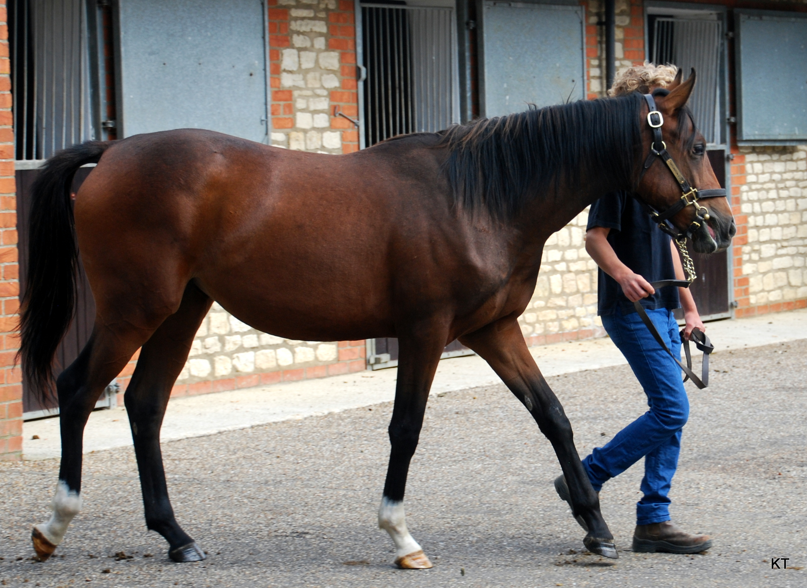 Marju race horse